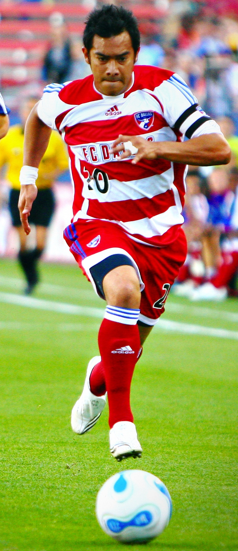 Carlos Ruiz in a game against the New York Red Bulls This file has been extracted from another file: Carlos Ruiz Jeff Parke.jpg